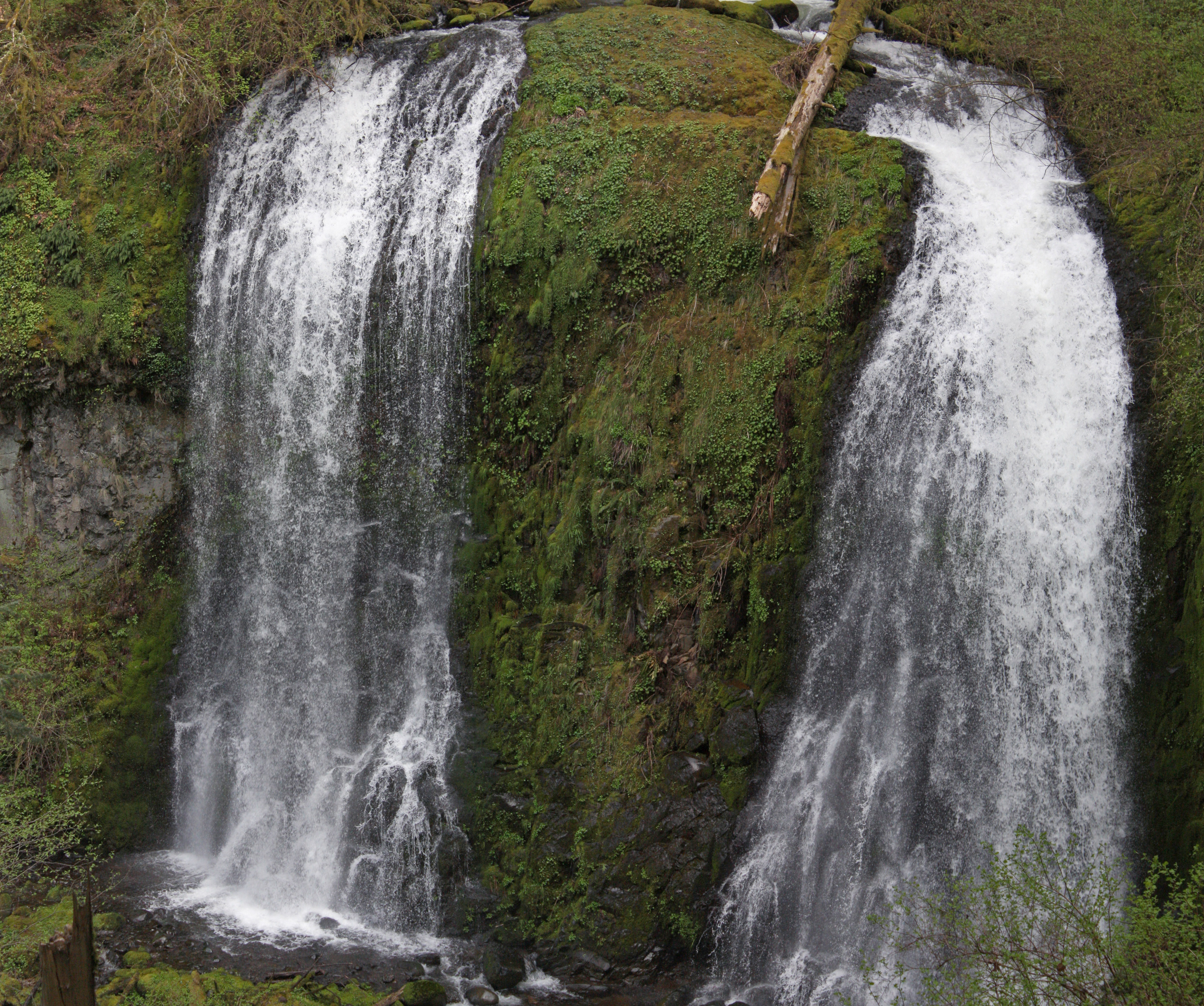 Upper McCord Creek Falls 64 feet, 19.5 m